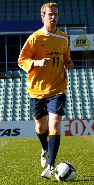 David Carney at Socceroos training.